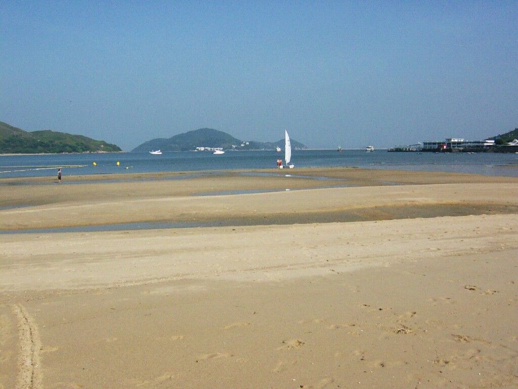 Mui Wo Silvermine Bay Beach; taken by Mintchocicecream on 2002-09-07.